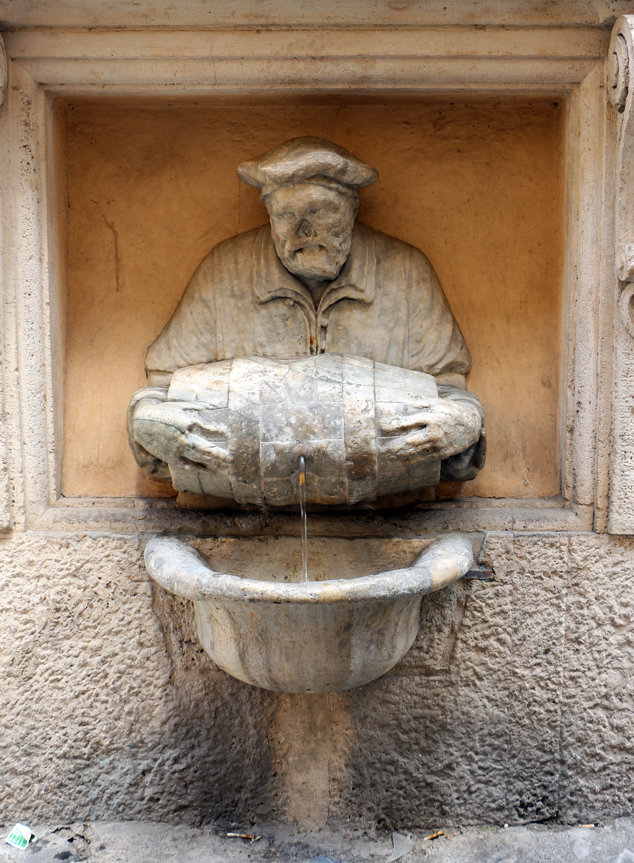 Rome, miscellany